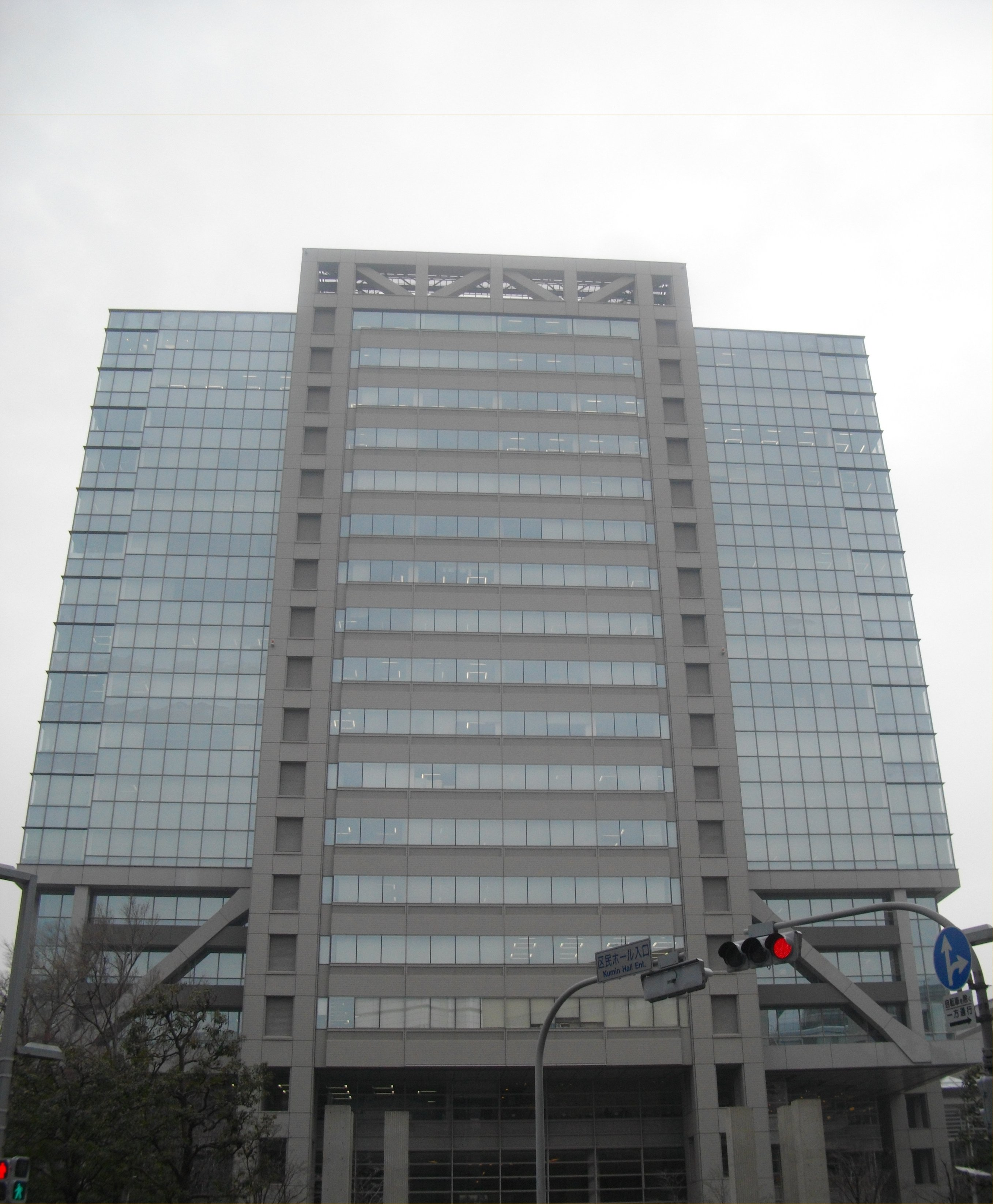 A photo of Nissei Aroma Square(A office building in Kamata,Tokyo.)Kamata,Ota-ku,Tokyo,Japan.